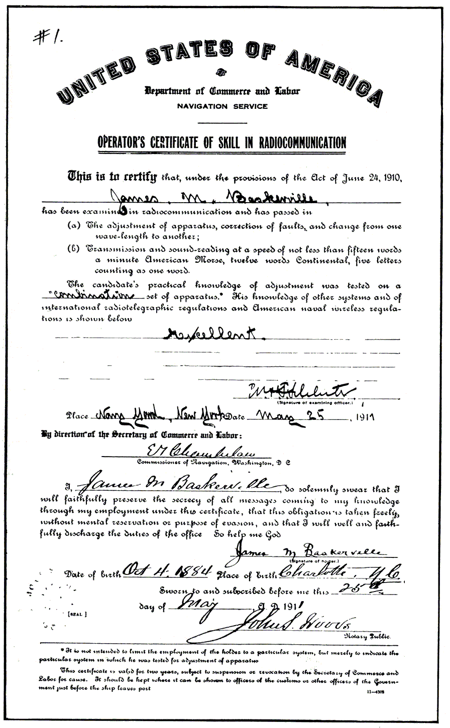 Under the provisions of the Wireless Ship Act of 1910, shipboard radio operators had to be certified as being proficient